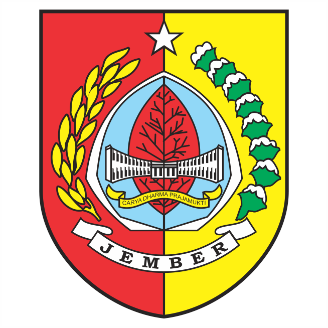 Coat of arms of Jember Regency, East Java